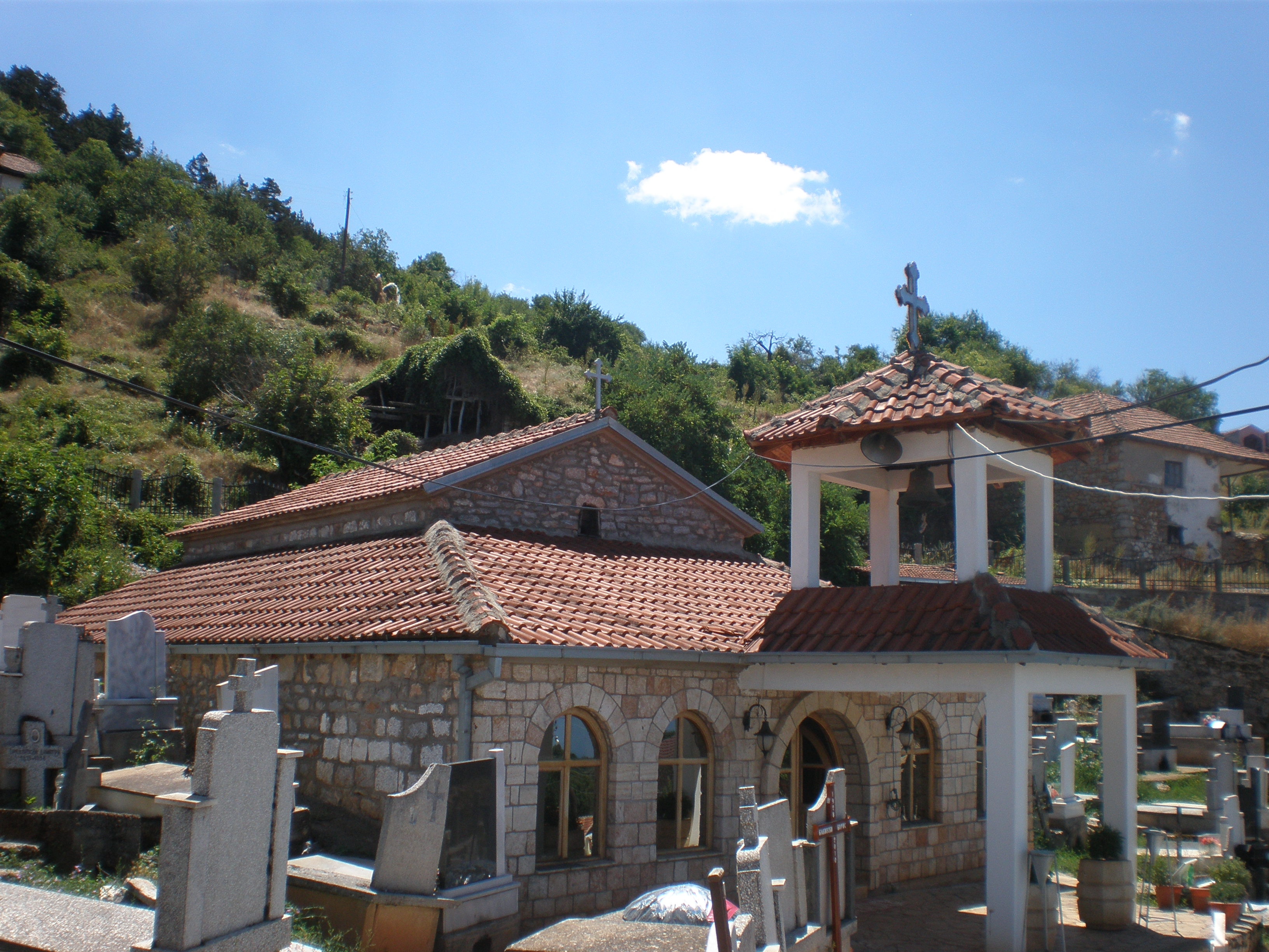 Church of the Holly Mother of God, in the village Velestovo, near Ohrid, Macedonia